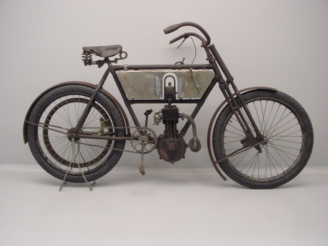 1905 Griffon 350cc single cylinder motorcycle